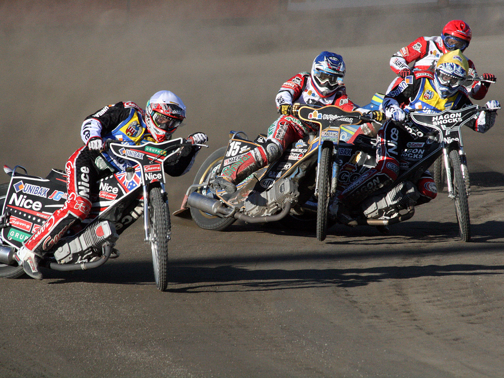 Speedway metch in polish league between Polonia Bydgoszcz and Unibax Toruń (12th race; April 19, 2009). white helmet - Darcy Ward, blue helmet - Emil Sayfutdinov, yellow helmet - Chris Holder, red helmet - Antonio Lindbäck.